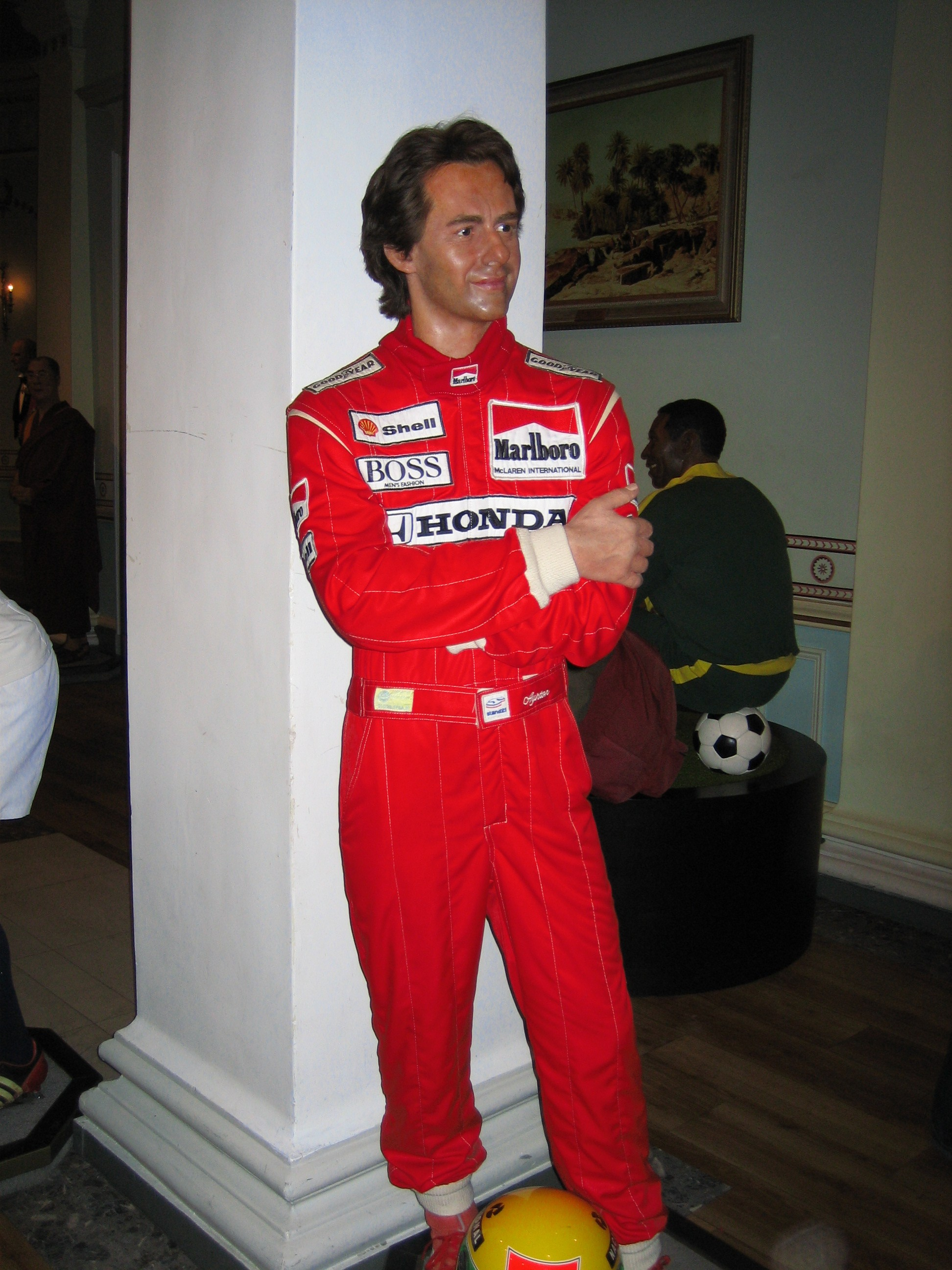 Ayrton Senna's statue in Madame Tussauds London, London, United Kingdom